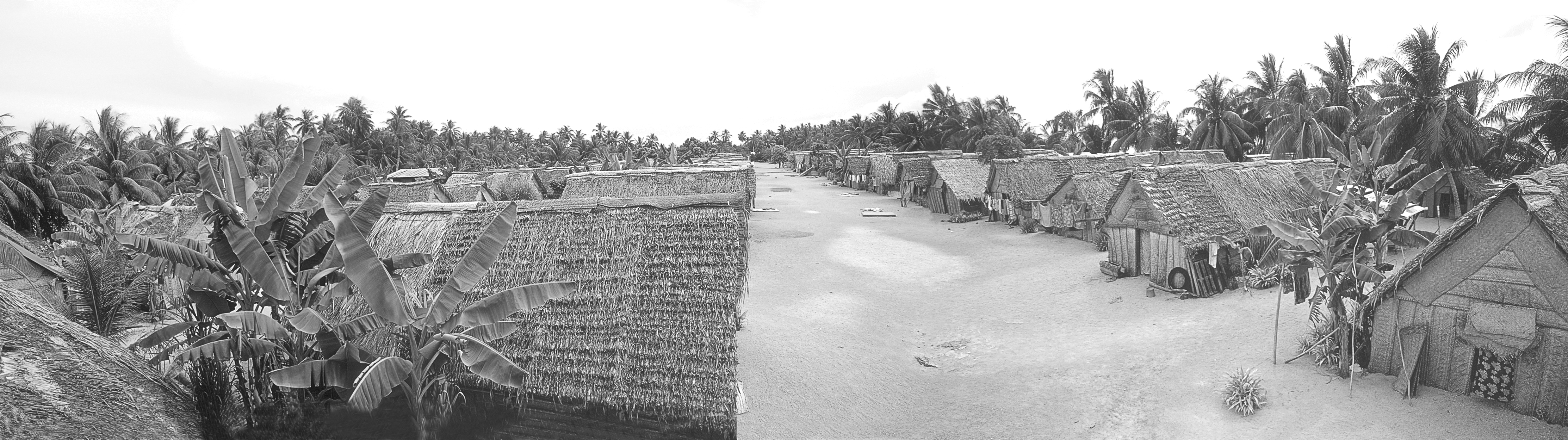 Nukutoa village, Takuu Atoll, Papua New Guinea, in the year 2000. A village scene on a Polynesian outlier island.